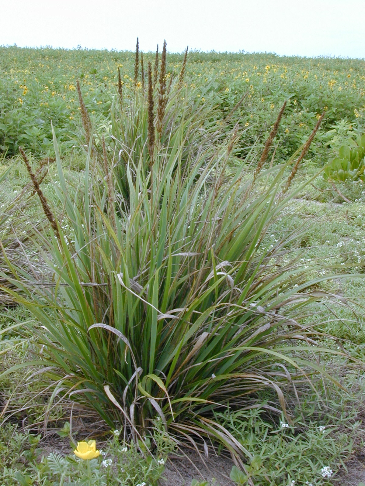 Eragrostis variabilis (habit). Location: Kure Atoll, Inland